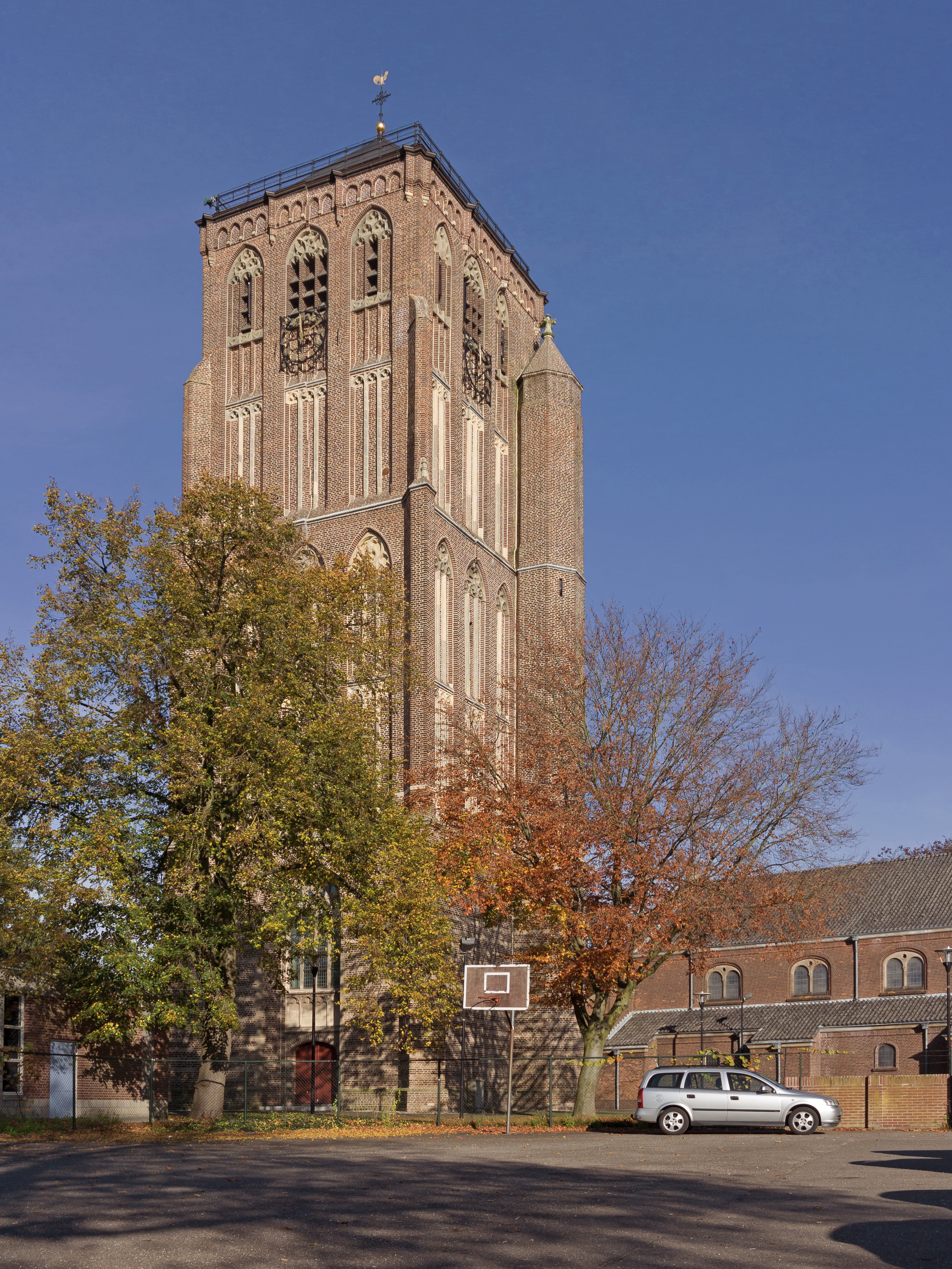 Sambeek, churchtower: de Sint Jan de Doperkerk